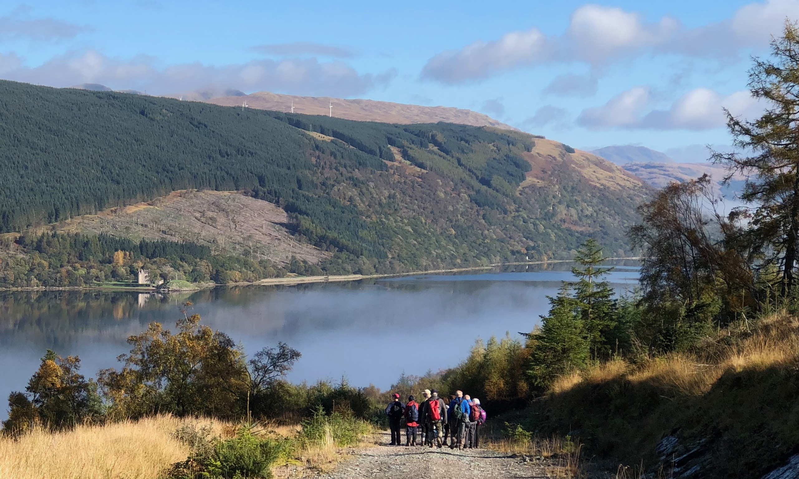 View down to Loch Fyne as morning mists clear, from a hill track above St Catherines. To the left, Dunderave Castle stands on the opposite shore.